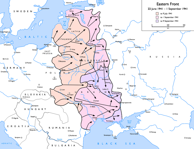 Map of the Eastern Front (WWII), 1941-06-21 to 1941-09-09